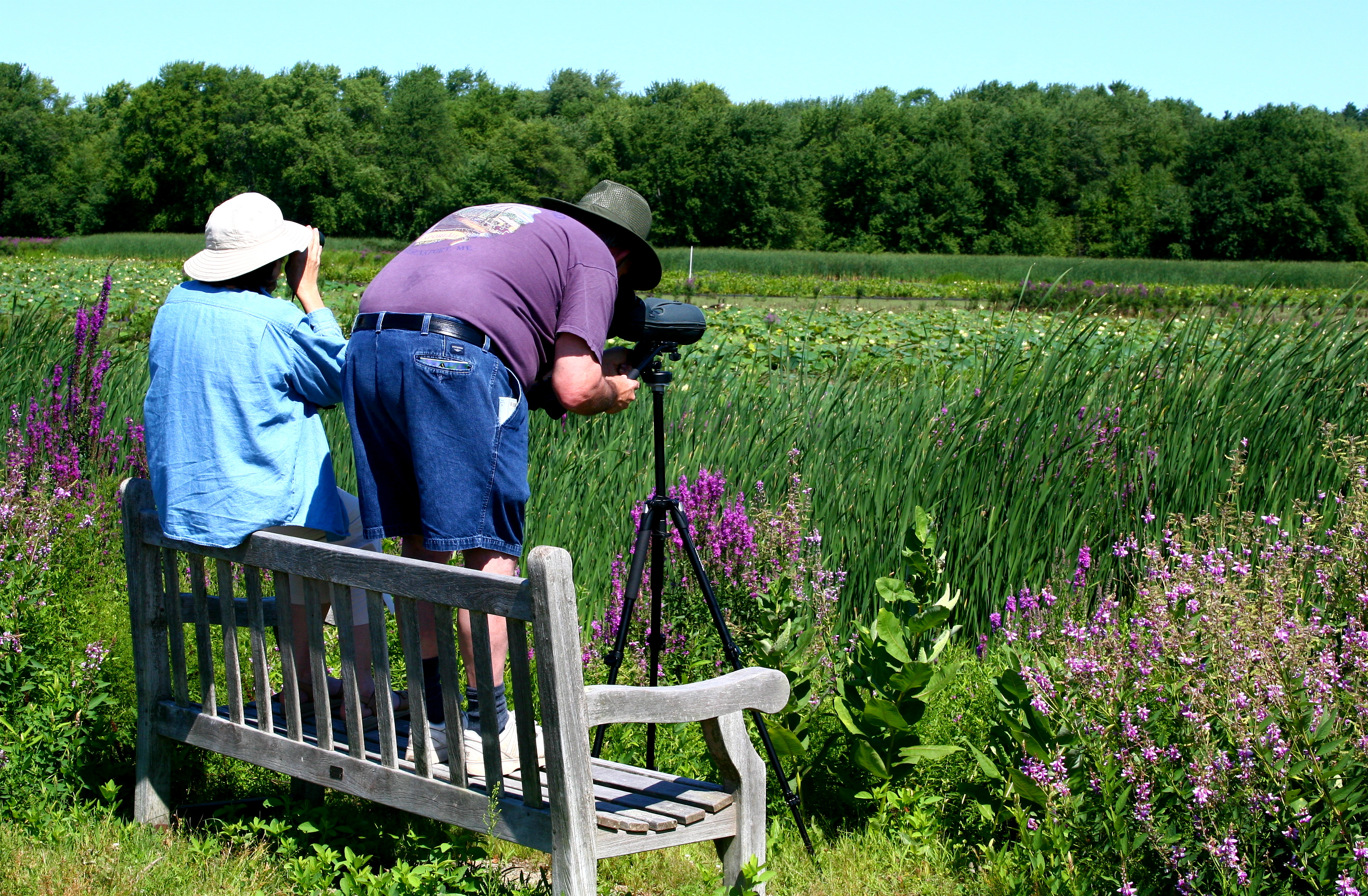 Birdwatchers in Great Meadows National Wildlife Refuge, near Concord, Massachusetts, USA. – Great Meadows in Concord is a wildlife sanctuary that gets numerous avian visitors. Today there was a group of white egrets feeding, as well as several great blue herons. The weather was gorgeous – sunny but not hot or humid – and many people were out and about early. There was a general feeling of goodwill among these people, who shared information about where to see various birds. One guy even told us where to find a gargantuan multi-bodied cattail. We passed one photographer who was carrying a camera with a very long lens. "What size?" we asked. "Not big enough," he said ruefully.